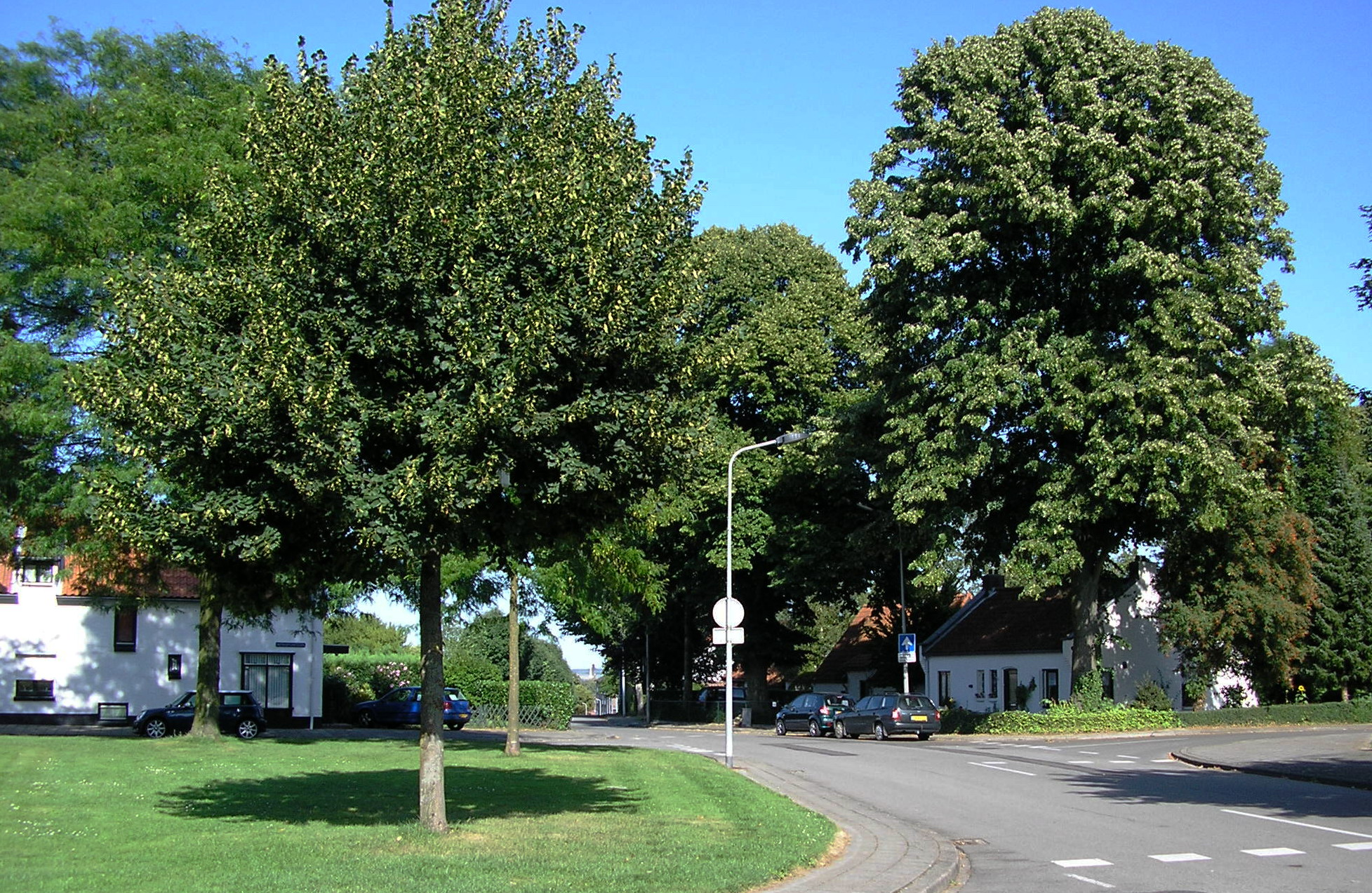 Trichterveld Neighbourhood, Maastricht, the Netherlands